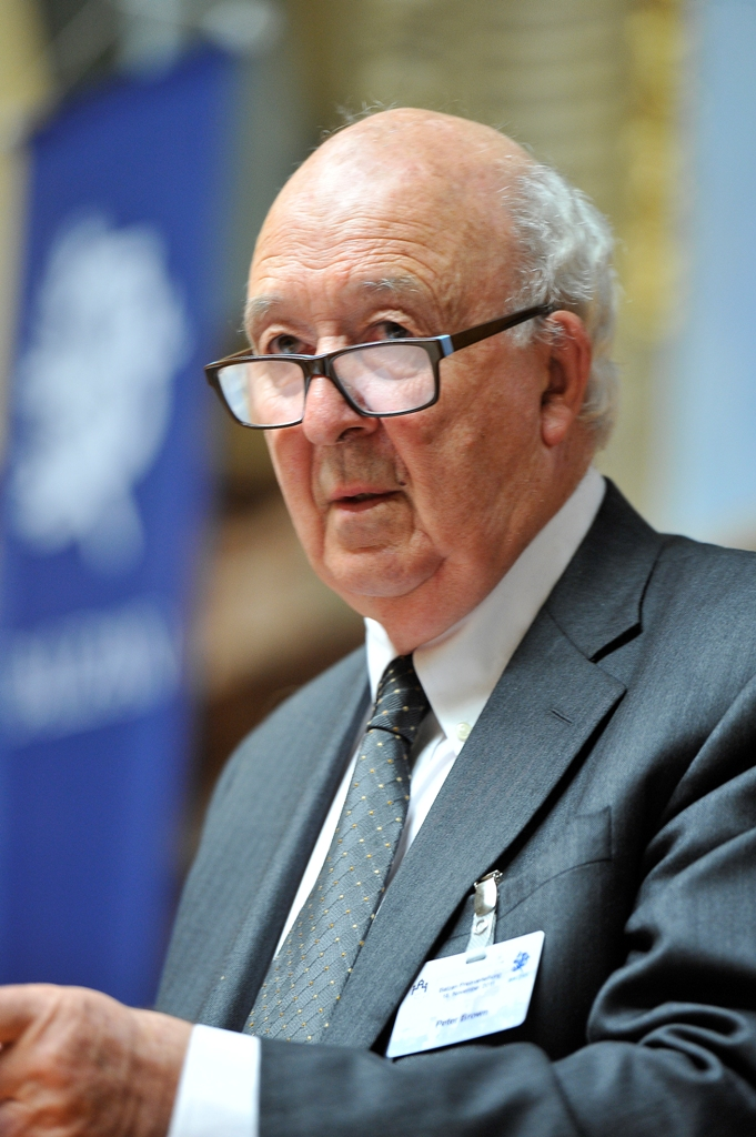 Peter Brown at the Balzan Prize Ceremony, 2011